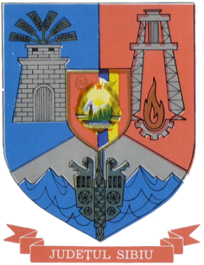 Communist coat of arms of Sibiu County, Socialist Republic of Romania.